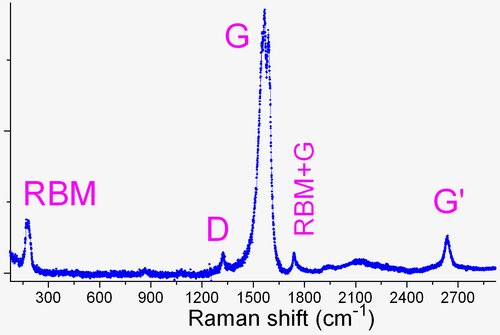 Raman spectrum of well-dispersed single-wall carbon nanotubes (Hipco). Symbols: RBM - radial breathing mode; D - D mode, G - G mode; RMB+G - combination of RBM and G modes; G' - double-phonon scattering of the D mode (that is 2xD, not 2xG - note confusing, yet conventional symbol).